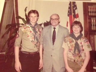 An old photo of tommy earning he eagle scout